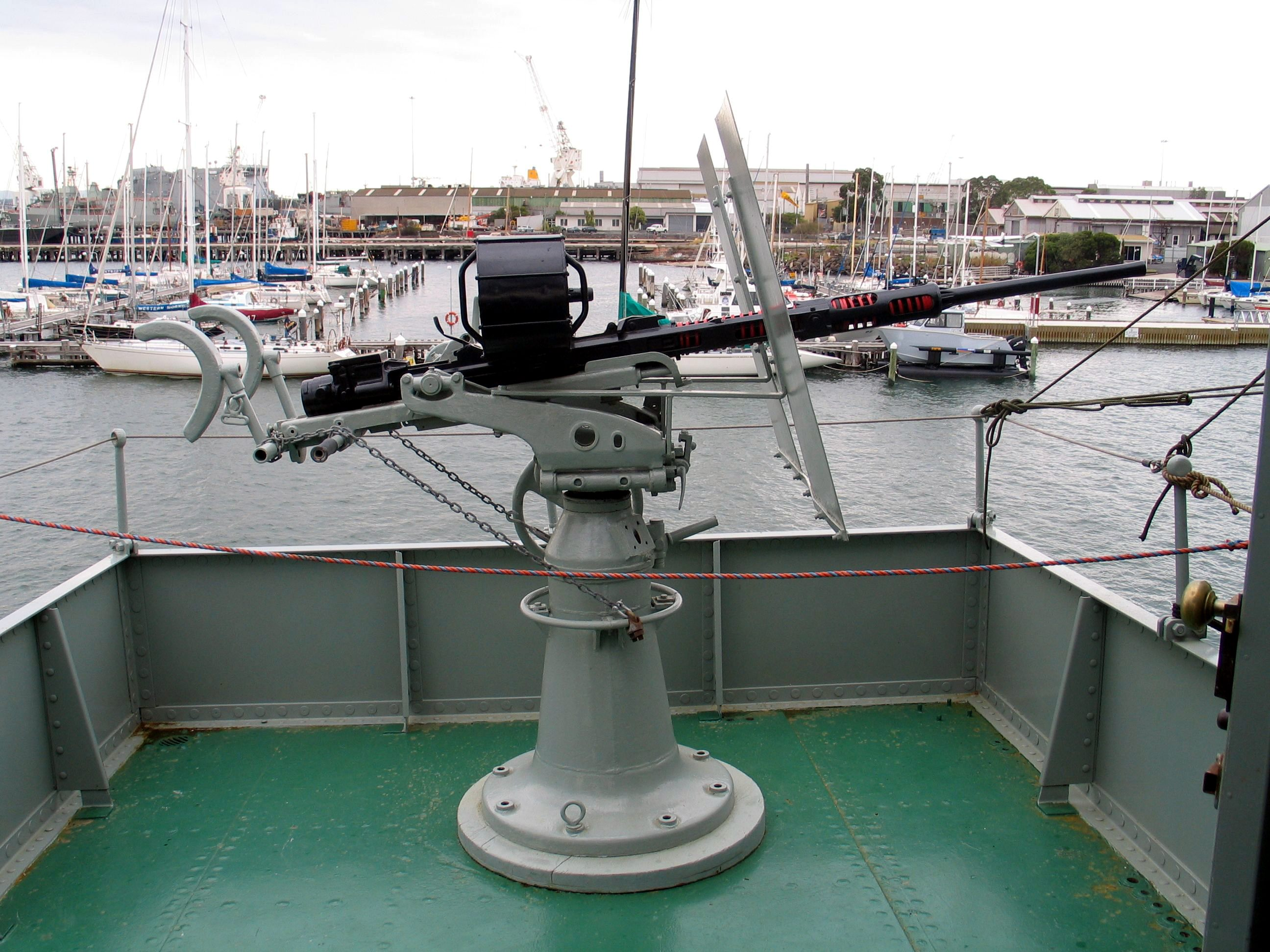 HMAS Castlemaine Bathurst-class corvette, berthed at Gem Pier, Wiliamstown, Victoria, Australia. The 20mm Oerlikon autocannon.